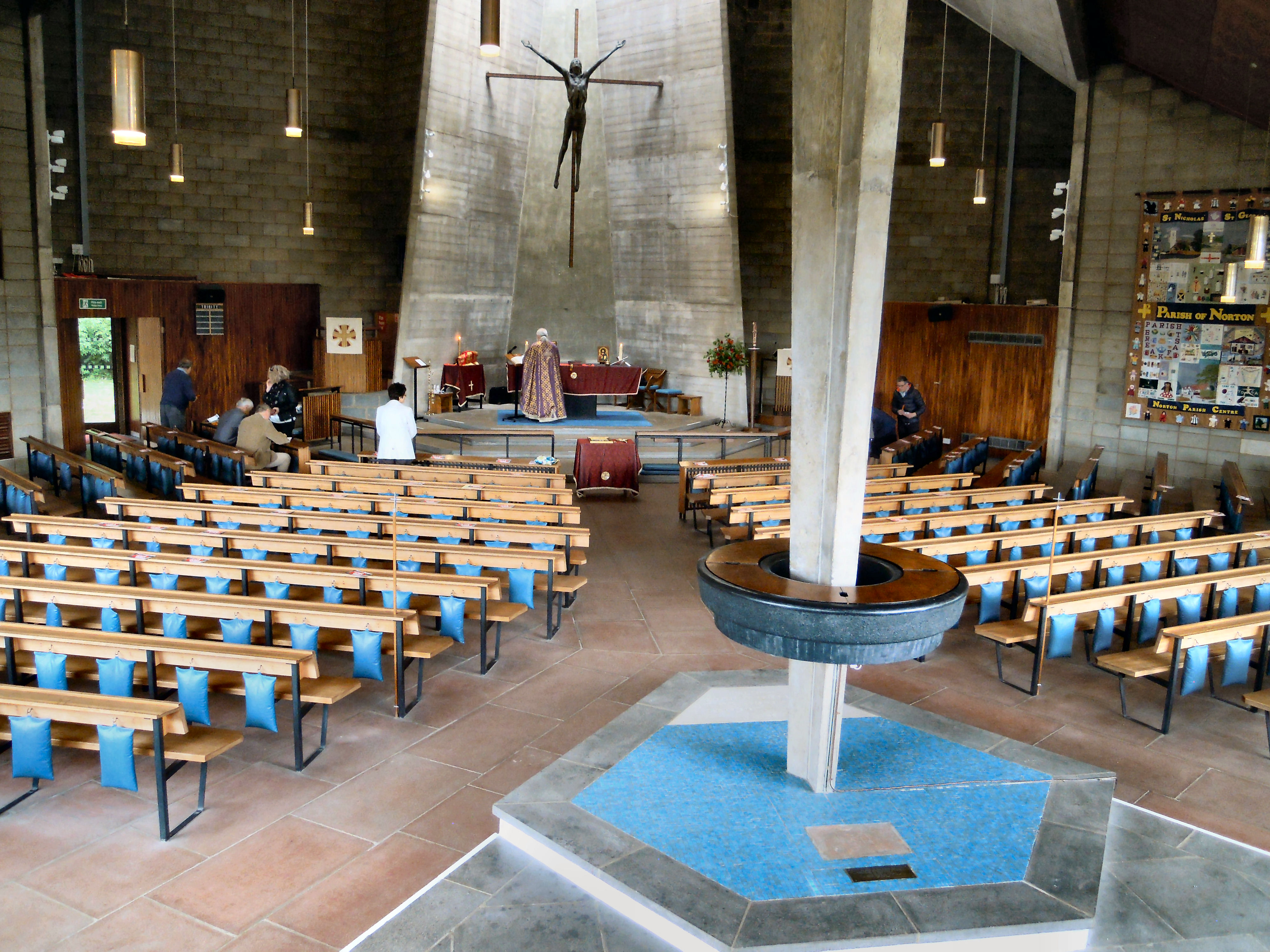 St George's Church in Letchworth in Hertfordshire